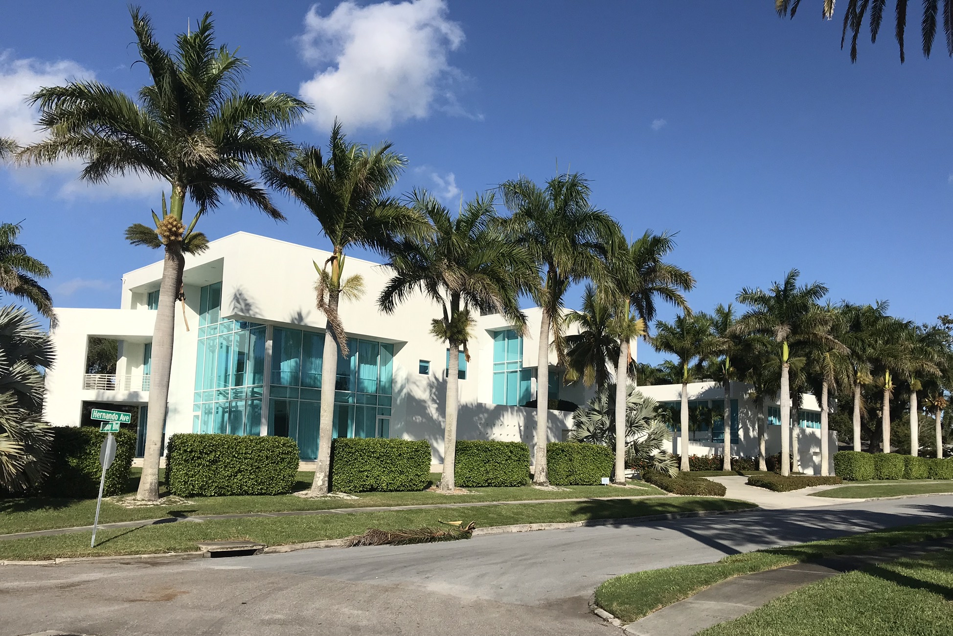 Theisen House (Guy Peterson, Architect FAIA)